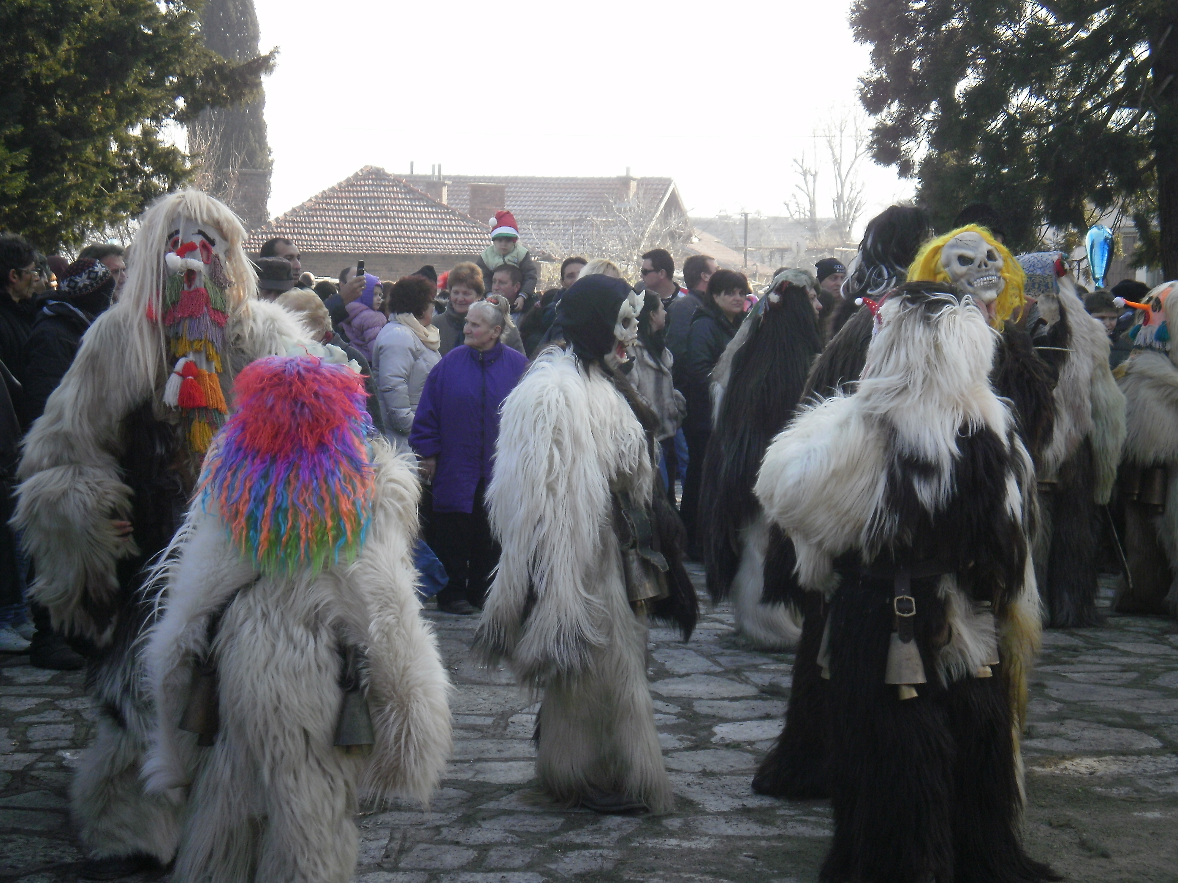 Kukeri in Varvara, Pazardzhik Province, Bulgaria, 01.01.2013.